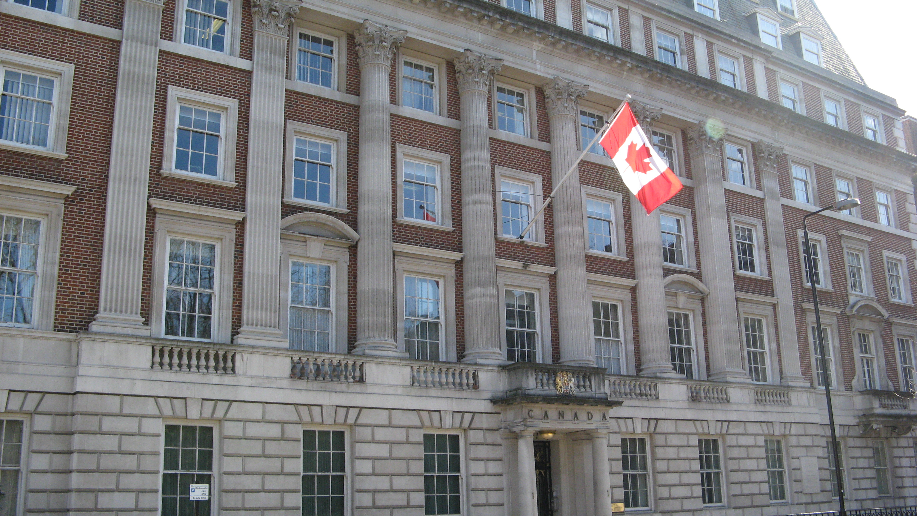 Macdonald House is a seven-storey building on Grosvenor Square in Mayfair, London that is part of the High Commission of Canada in London. Macdonald House hosts the trade and administrative sections of the High Commission, as well as the High Commissioner's official residence, while the cultural and consular functions are carried out from Canada House on Trafalgar Square. Previously, Macdonald House was the home of the American Embassy in London. It is named after Canada's first Prime Minister, Sir John A. Macdonald.